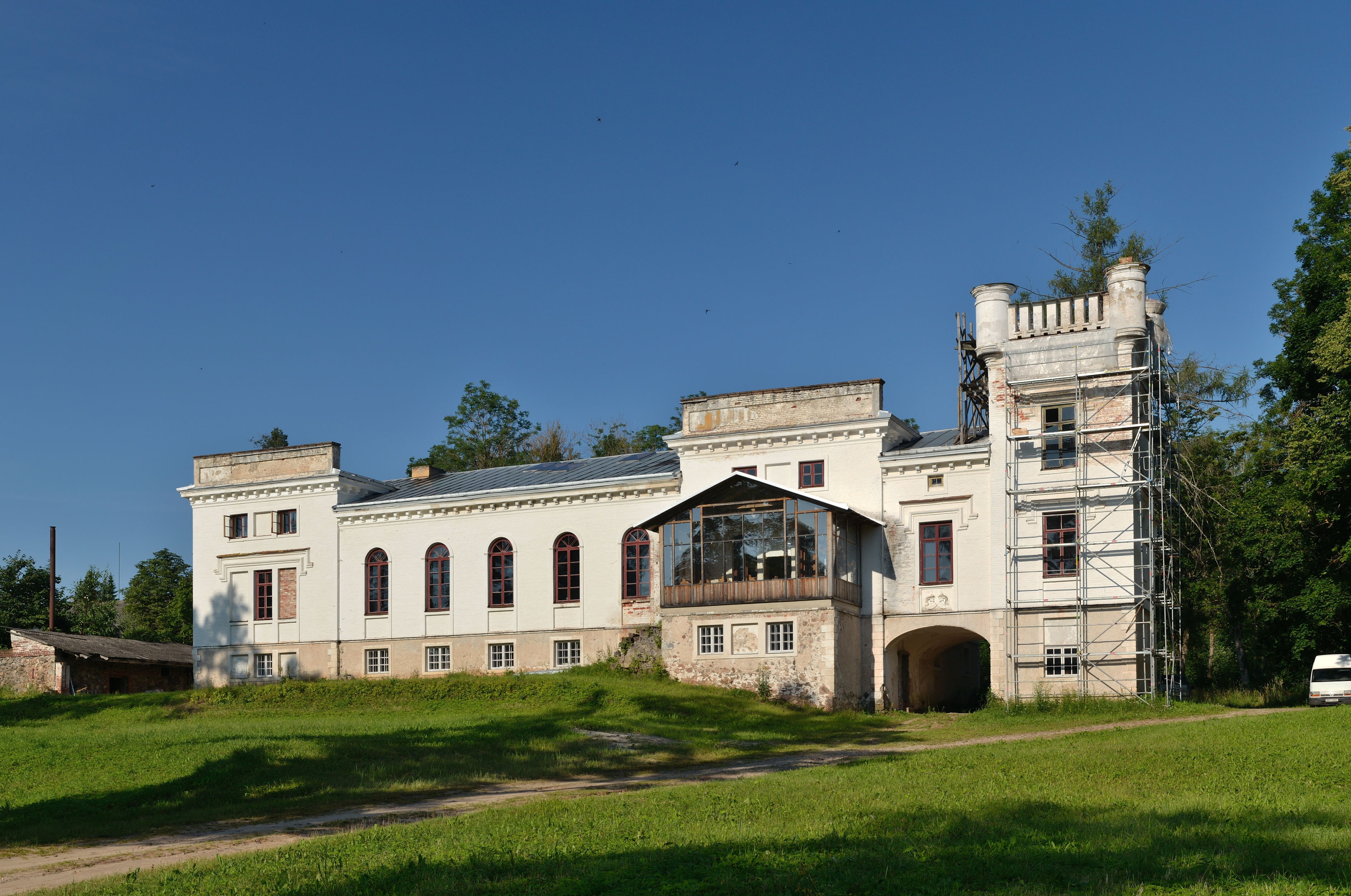 Sõmerpalu manor main building